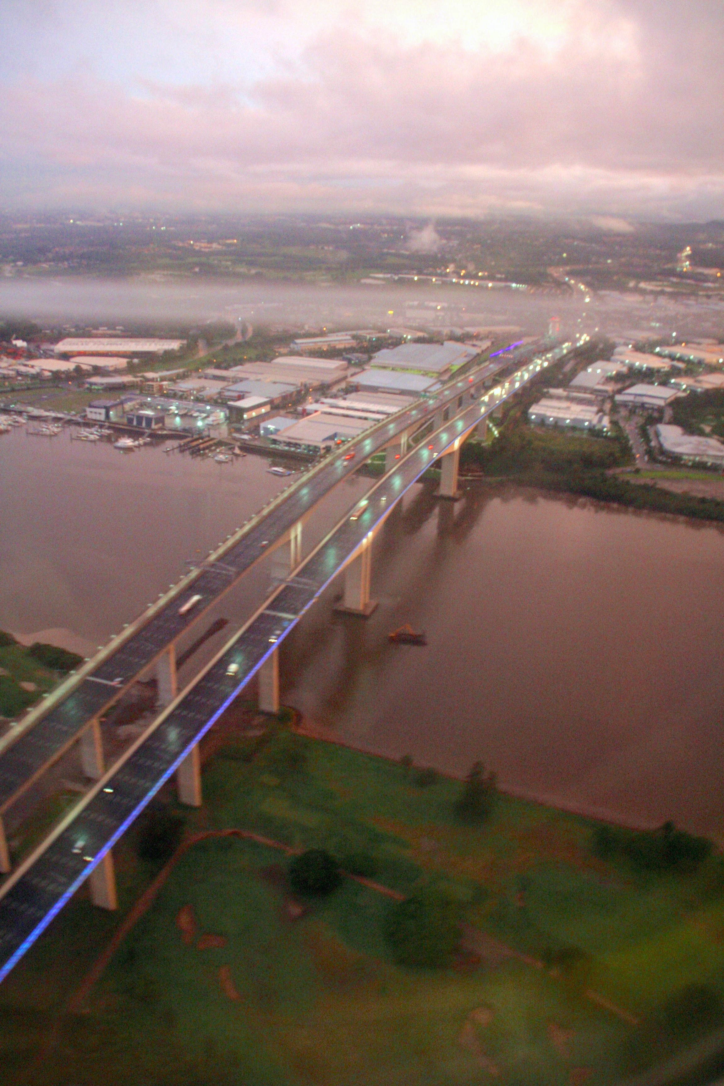 The Sir Leo Hielscher Bridges